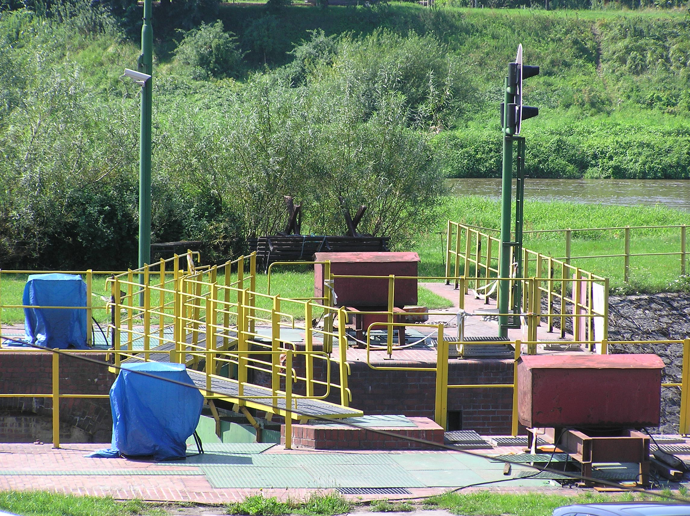 Wrocław, Oder River, Różanka Canal, Różanka Lock